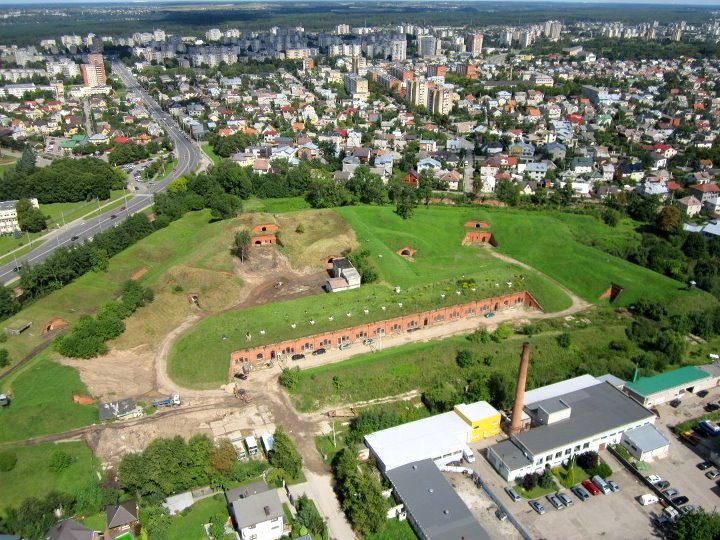 Fort view from the air